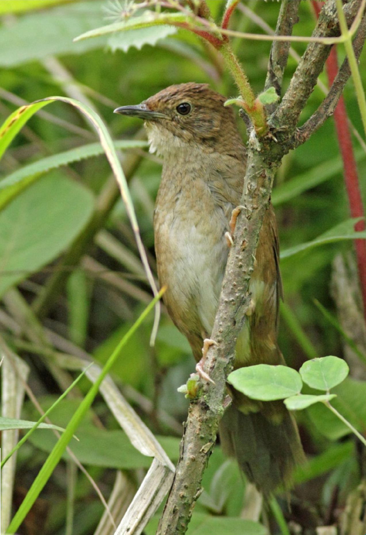 Adult male Locustella chengi (sexed by song and later in hand by prominent cloacal protuberance and lack of brood patch), Laojun Shan, Sichuan, China, 1350 m.